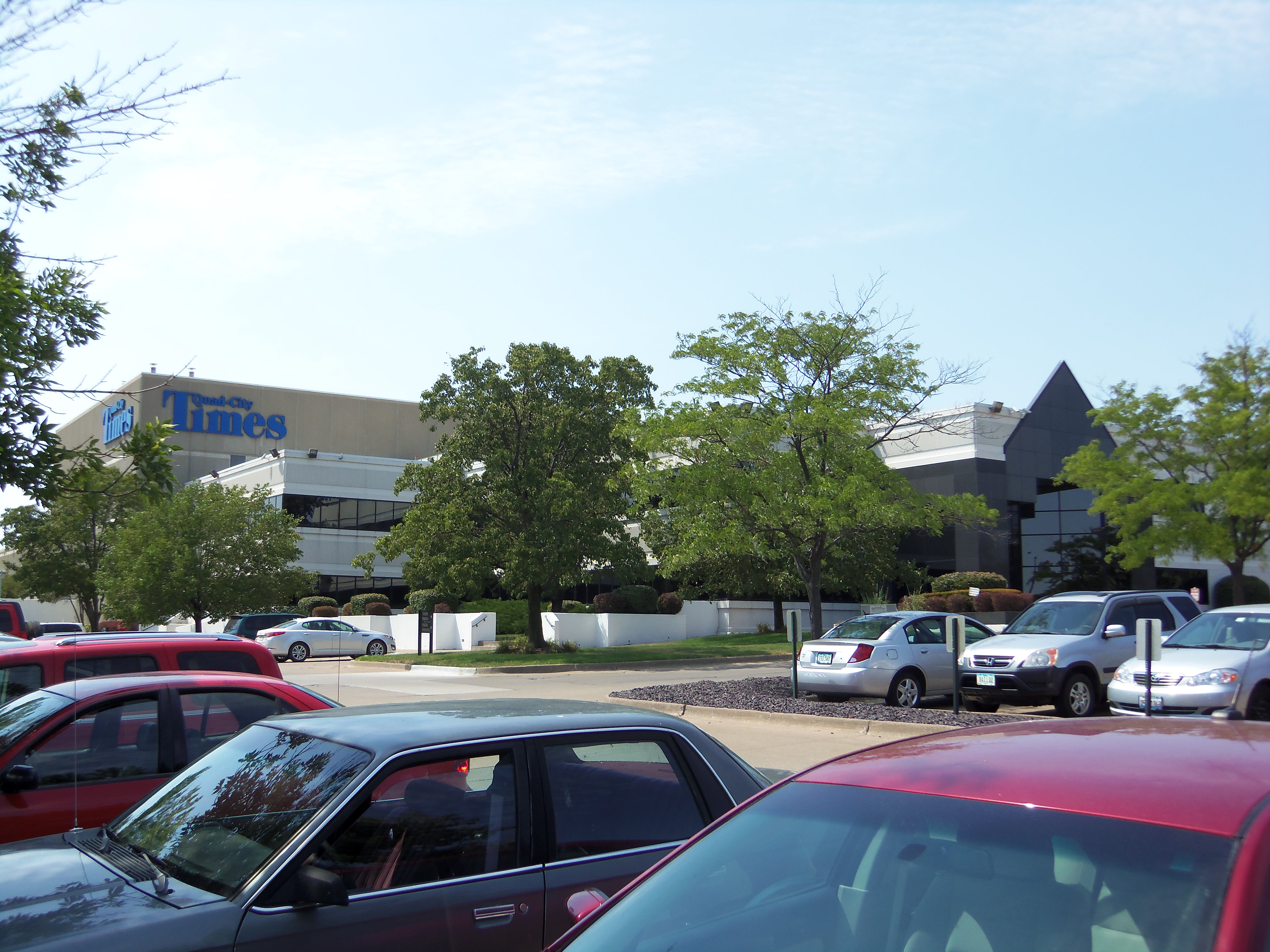 The offices and printing facility for the Quad-City Times in downtown Davenport, Iowa.